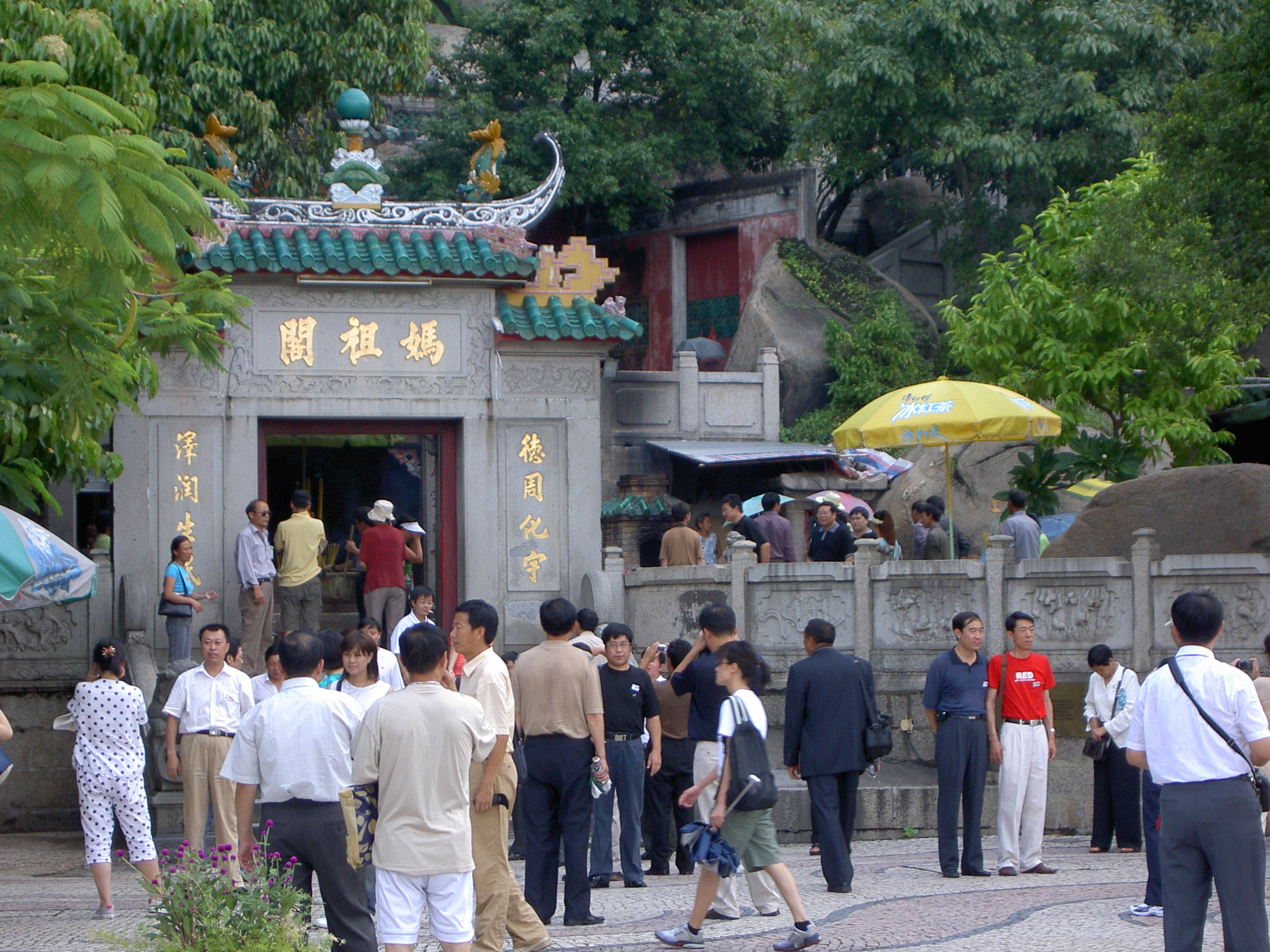 A-Ma Temple. The front building of A-Ma Temple. A-Ma Temple is a part of the Historic Centre of Macau, a UNESCO's World Heritage Site. Photo taken by Netsonfong.